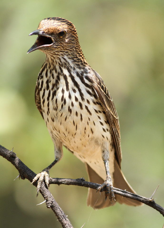 Violet-backed Starling, Cinnyricinclus leucogaster, at Pilanesberg National Park, Northwest Province, South Africa